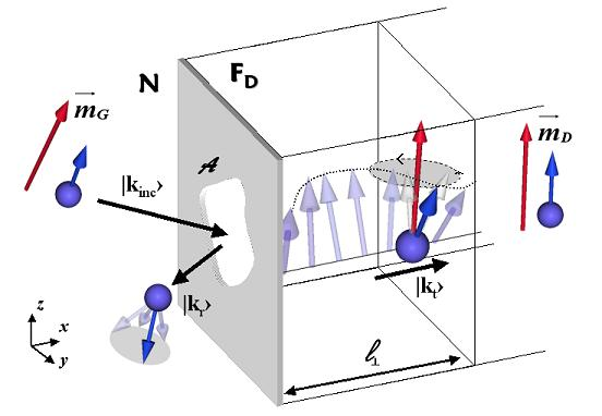 Schematic of electron spin momentum behavior when moving from a non-magnetic to a magnetic material